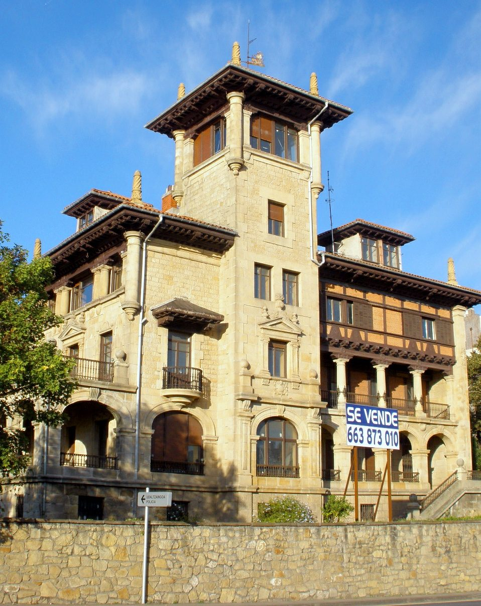 Palacio Eguzki-Alde, en Neguri, Guecho (Vizcaya)